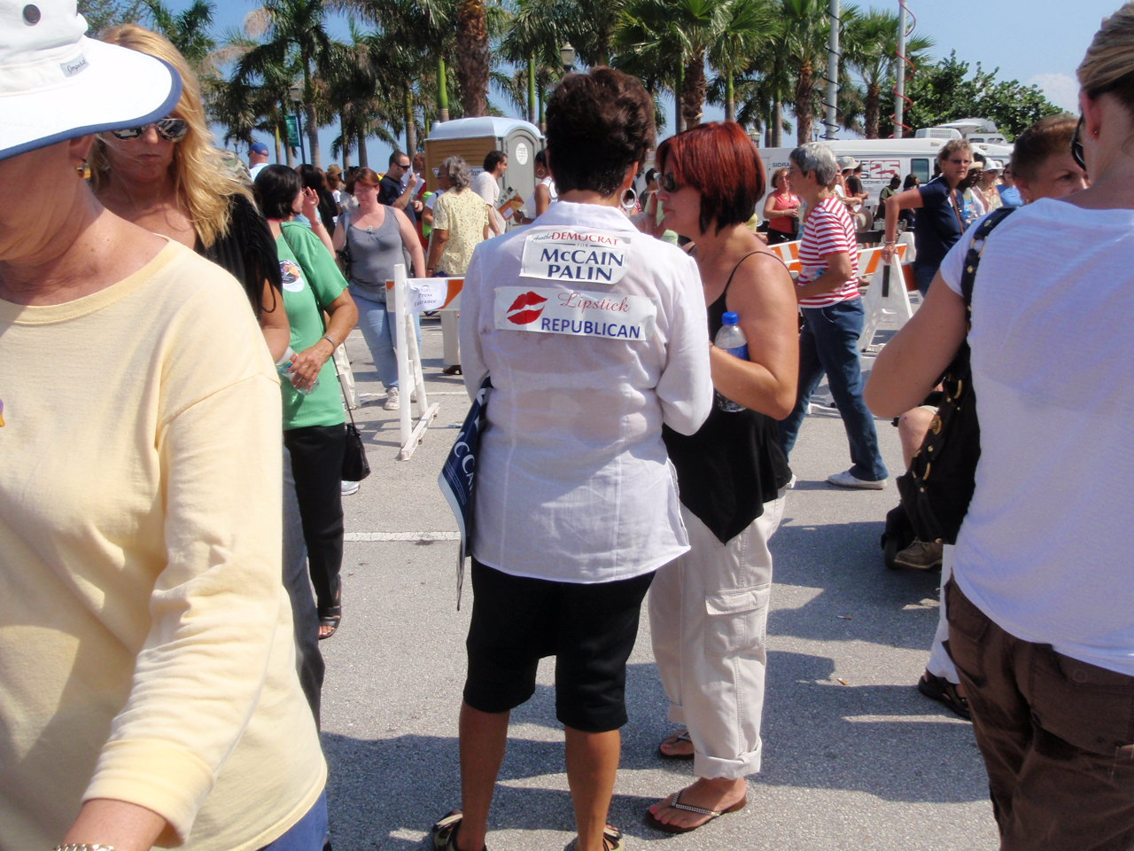 Even a McPalin Supporter came out!